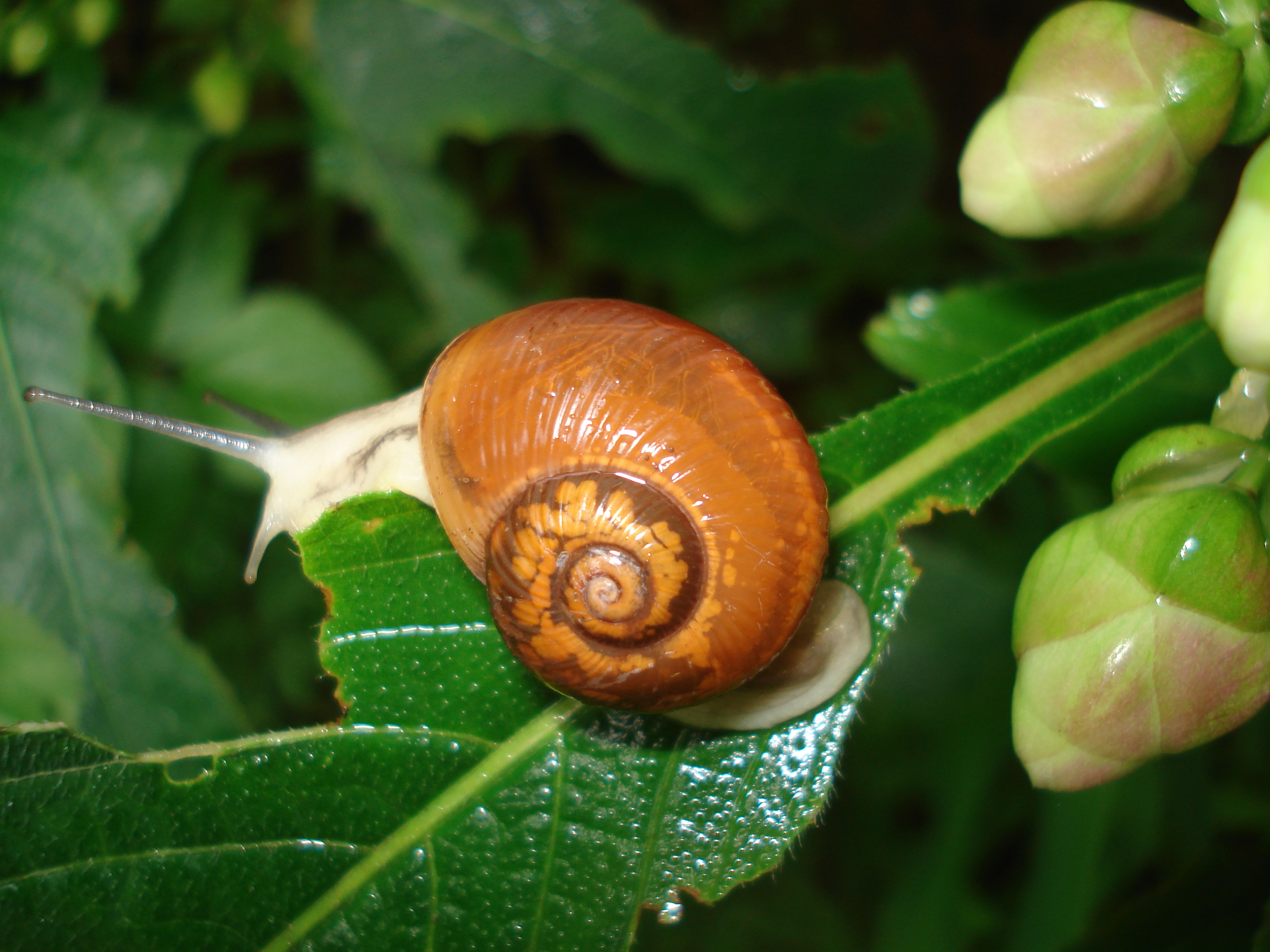 Macro photography of Snail, taken on the hills of Torna, Pune Maharashtra.